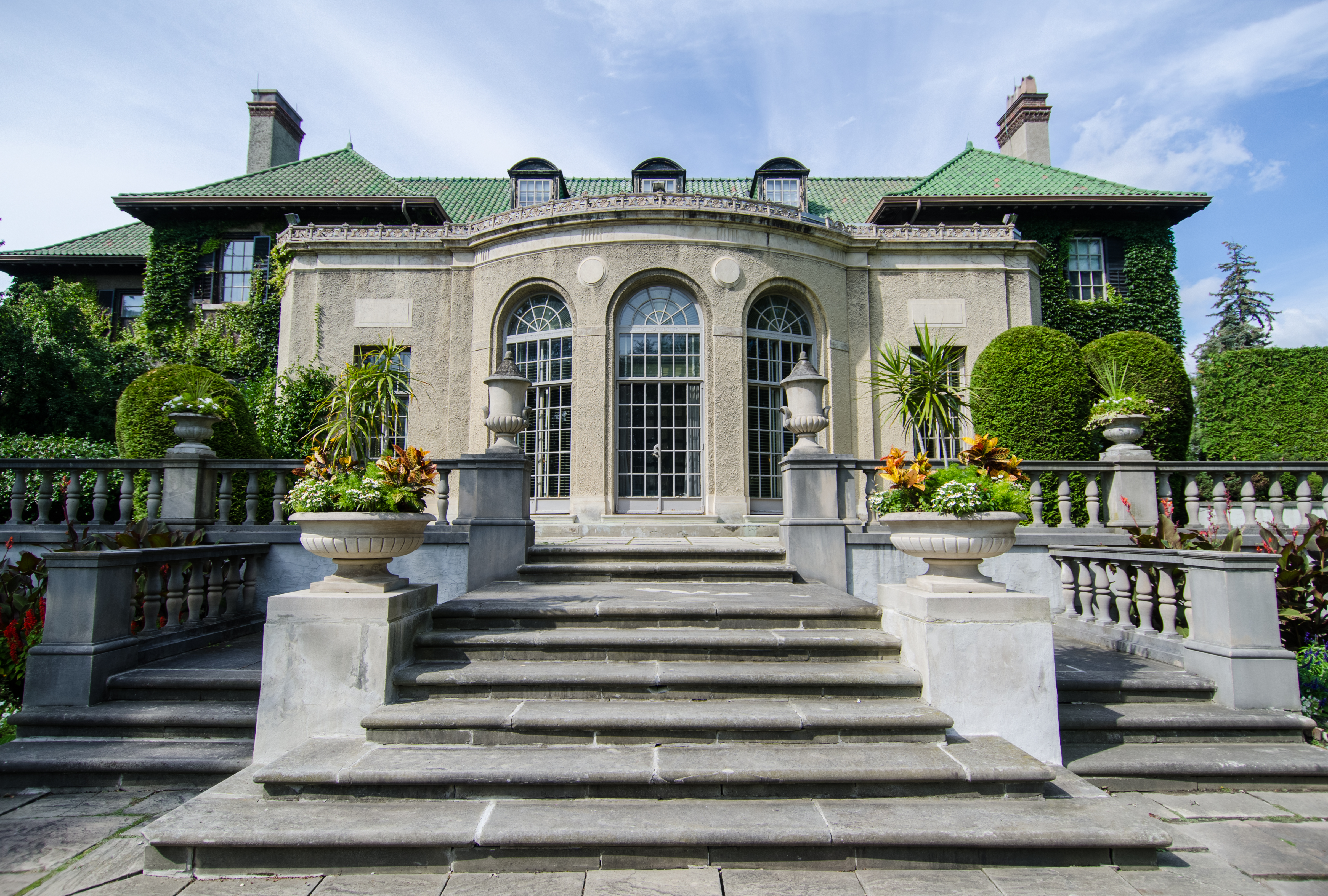 Seen in dozens of films and TV shows.